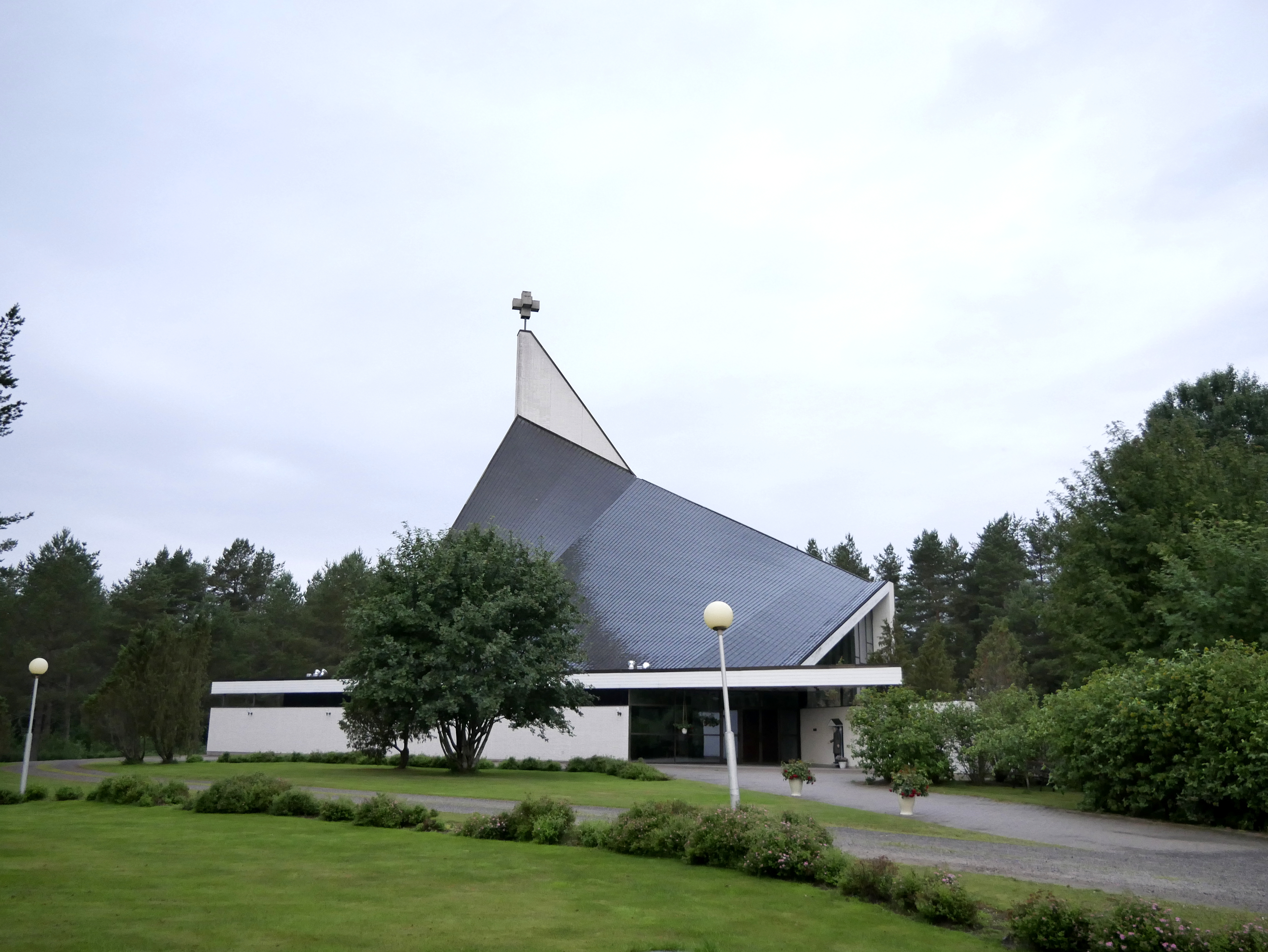 Pyhäjoki Church, Finland.